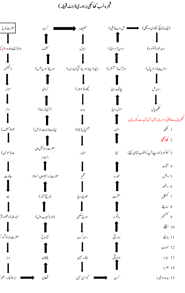 Origin of Khakhi Caste (complete Shajra-e-Nasab of Khakhi Caste)